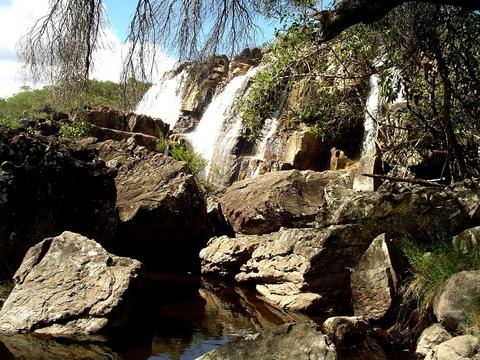 © Leonardo C. Fleck